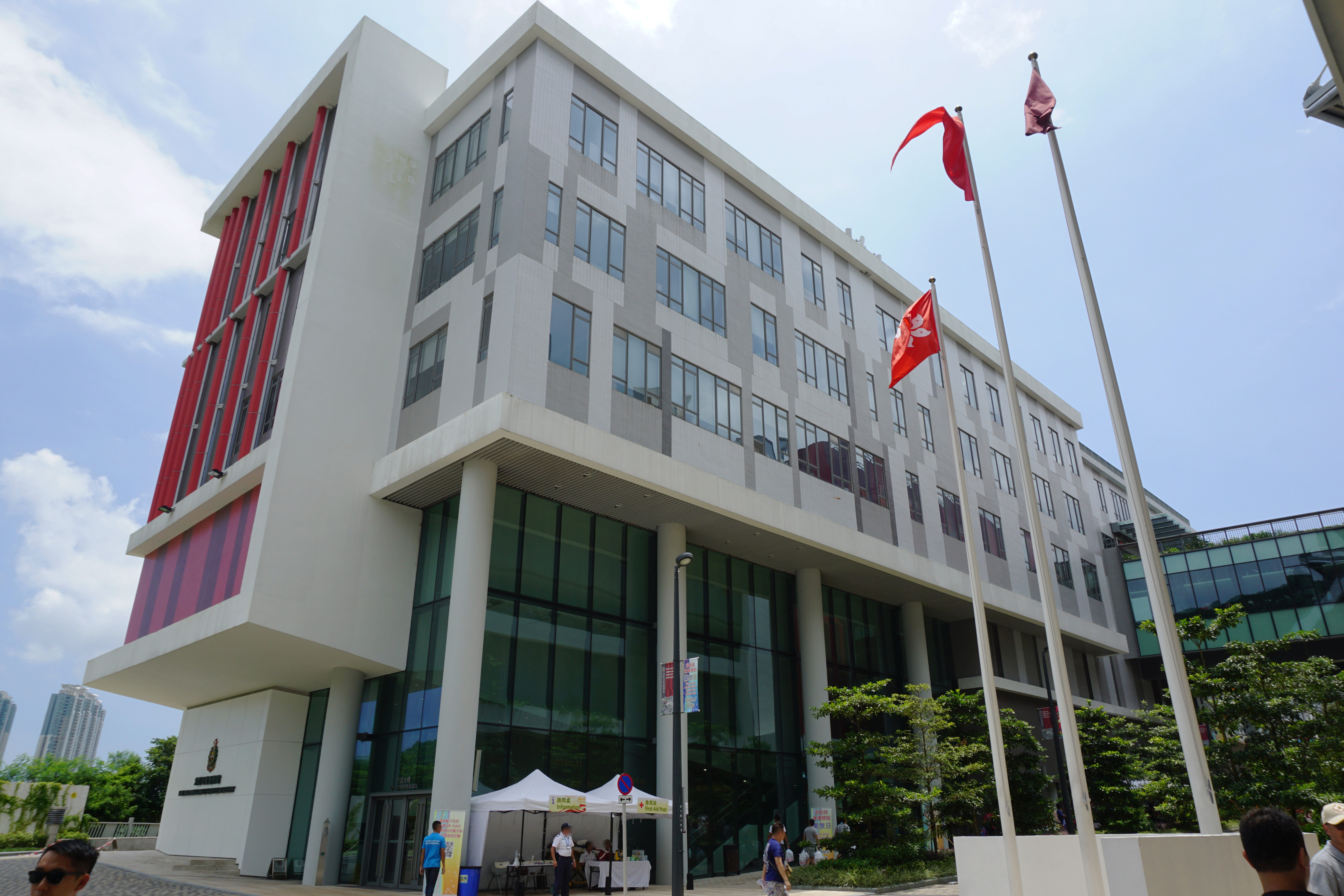 Fire and Ambulance Services Academy in Pak Shing Kok, Hong Kong.